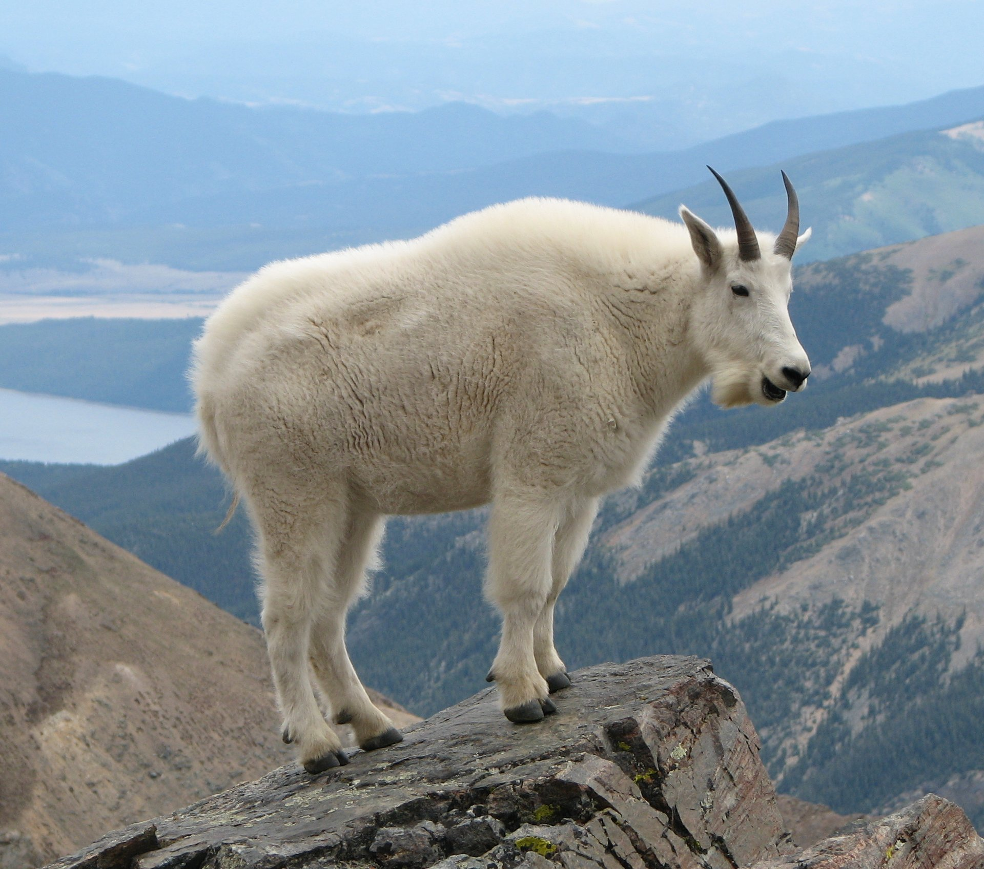 Crop of file in filename